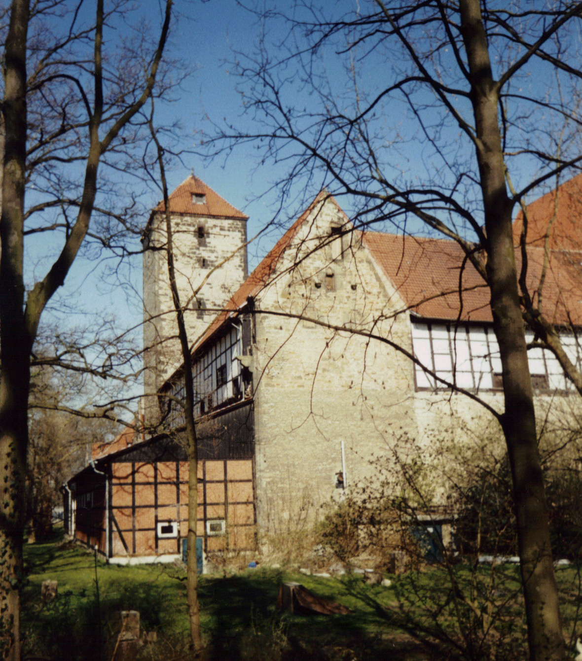 Hildesheim: Marienburg Castle (1346-1349).